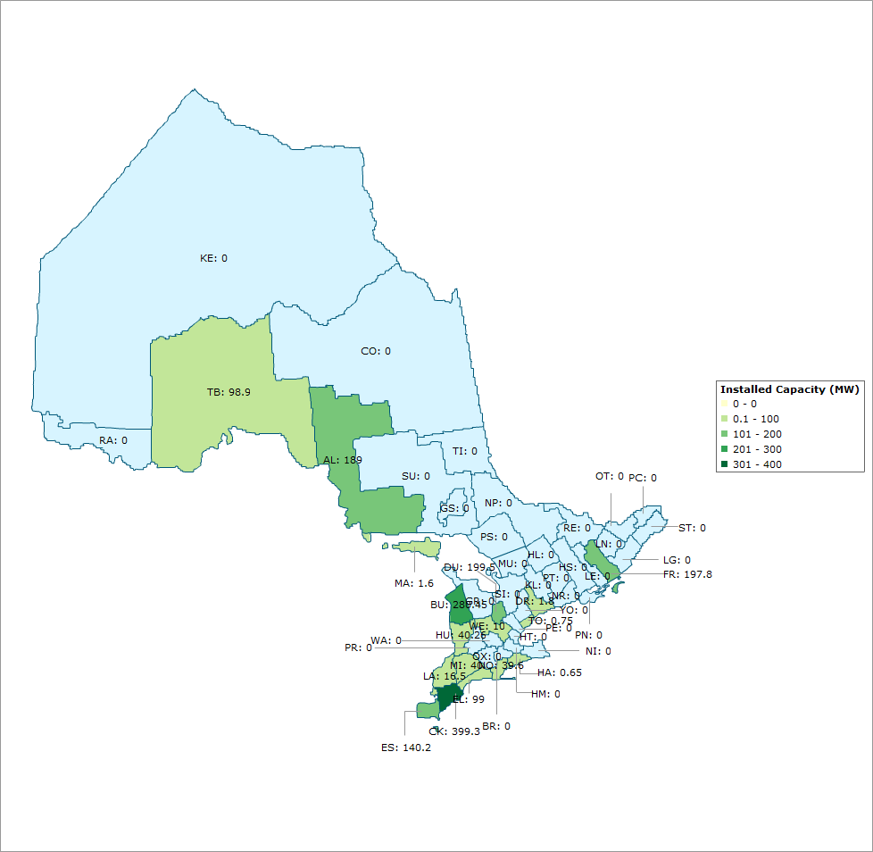 Ontario, Canada wind capacity by county. January 2012.